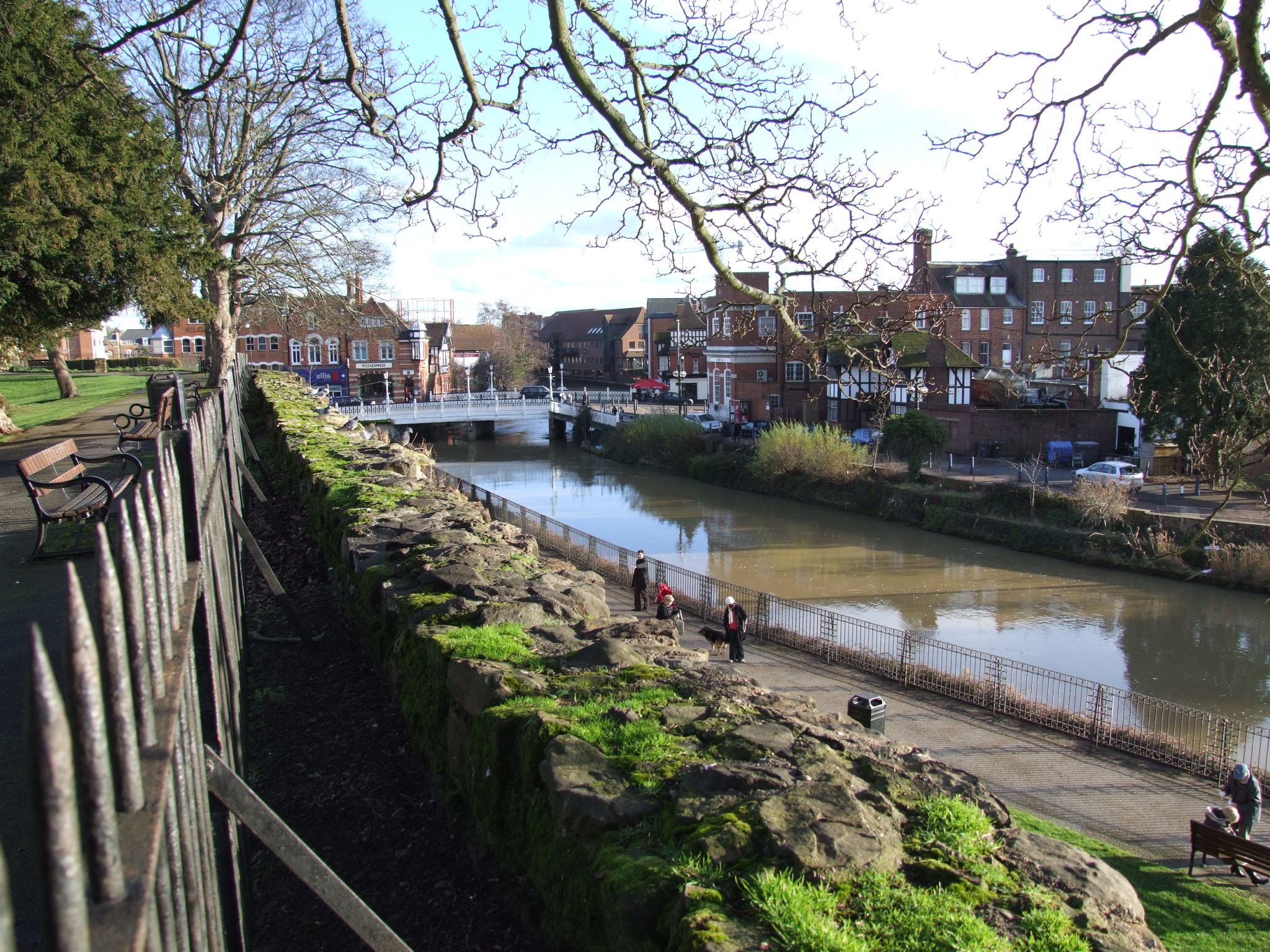 Tonbridge in Kent lies on the River Medway. The main channel passes under Big Bridge.Three channels have been culverted, the Botany Stream remains. Tonbridge is protected by Tonbridge Castle Big Bridge from the walls of the castle. Looking downstream.